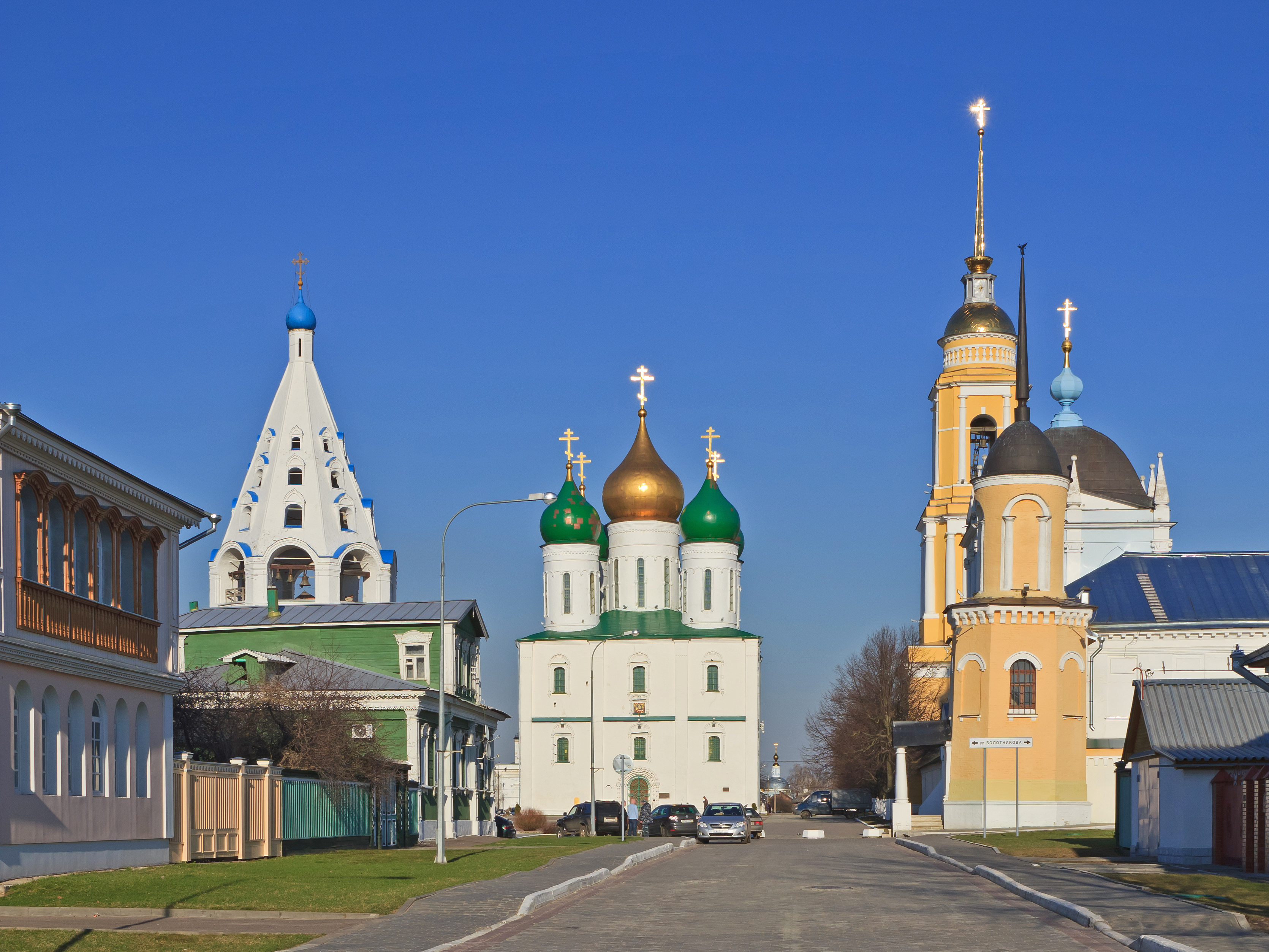 The Cathedral square (Bell tower, the Assumption Cathedral, and the Novo-Golutvin Monastery) in the Kolomna Kremlin. Kolomna, Moscow Oblast, Russia.